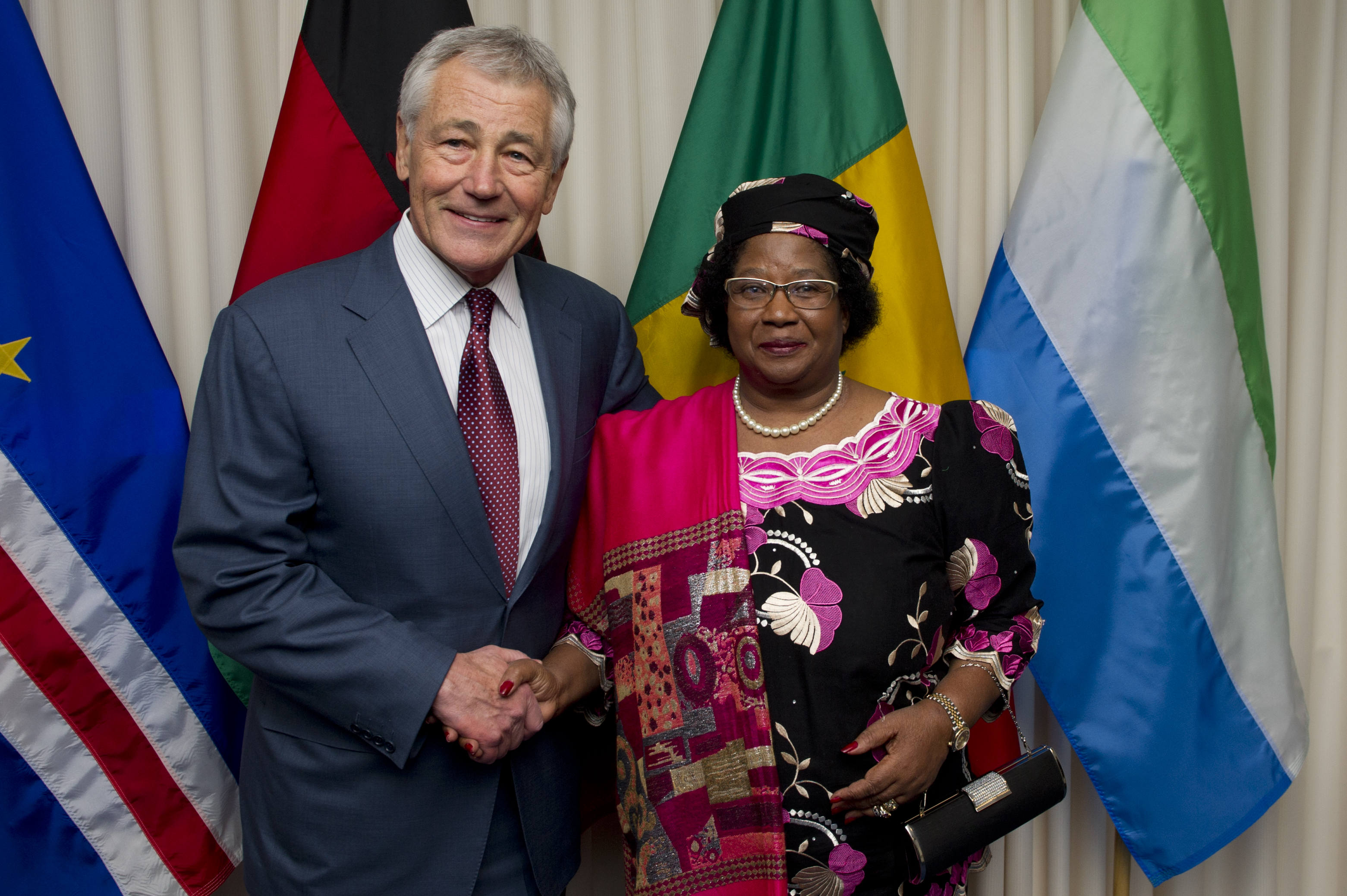 Secretary of Defense Chuck Hagel poses for a photo with Malawi President Joyce Banda prior to a joint meeting with Cape Verde Prime Minister Jose Maria Neves and President Bai Koroma of Sierra Leone at the Pentagon, March 28, 2013. (DoD photo by Mass Communication Specialist 1st Class Chad J. McNeeley/Released)